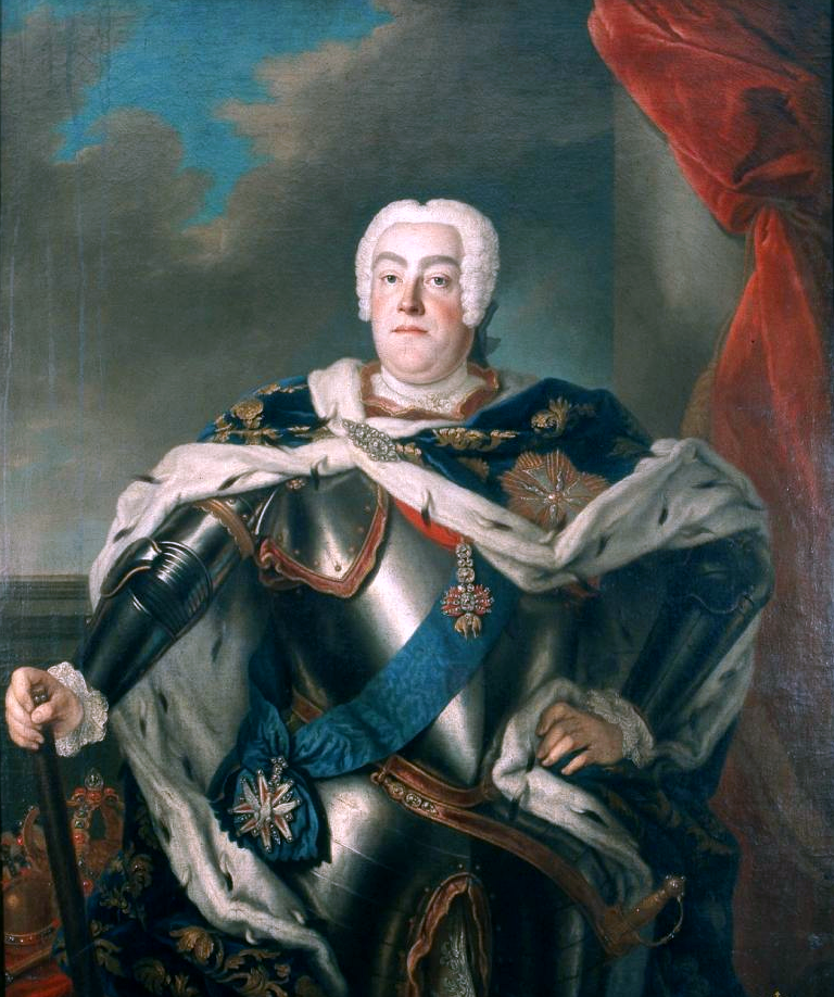 Portrait of August III the Saxon (1696-1763)